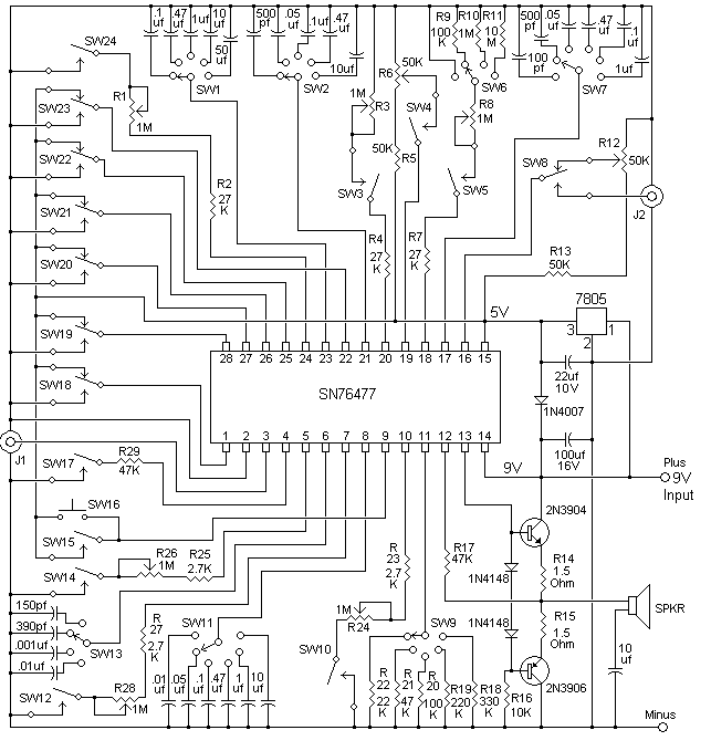 This is a re-draw of a demo circuit for the 76477 sound generator chip.